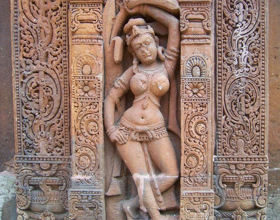 Sculpture of Alasa Kanya at Vaital Deul Reference picture at C.U. Library: [1]